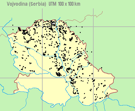 Position of earth mounds in Serbia (demonstrating density), a draft map conducted using QGIS, a free and open source Geographic Information System.